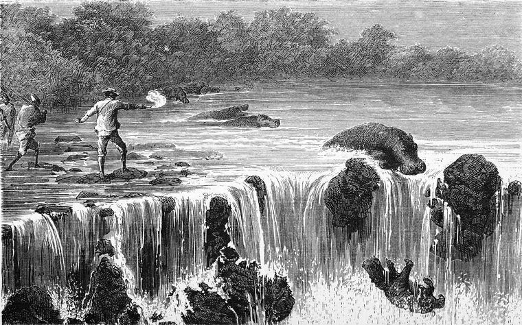 Waterfalls of Senegal river in Bambouk region